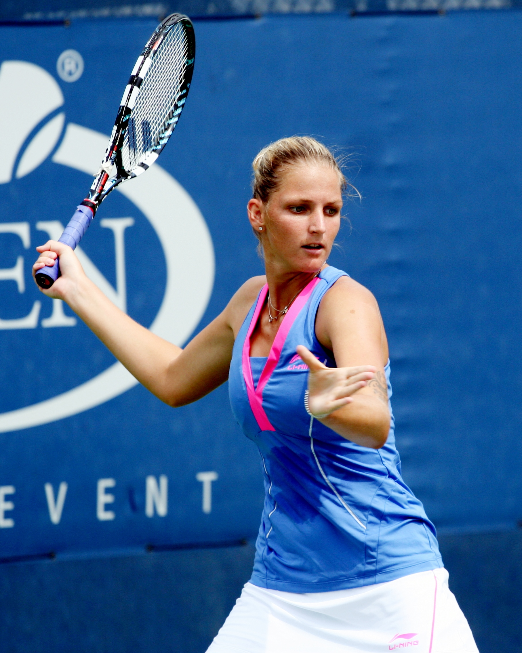 U.S. Open Friday, Aug. 30, 2013